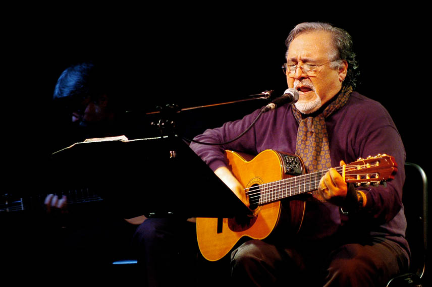 Buenos Aires, 26 de marzo de 2015.- Programación del mes de abril en la Casa de la Cultura del Fondo Nacional de las Artes.